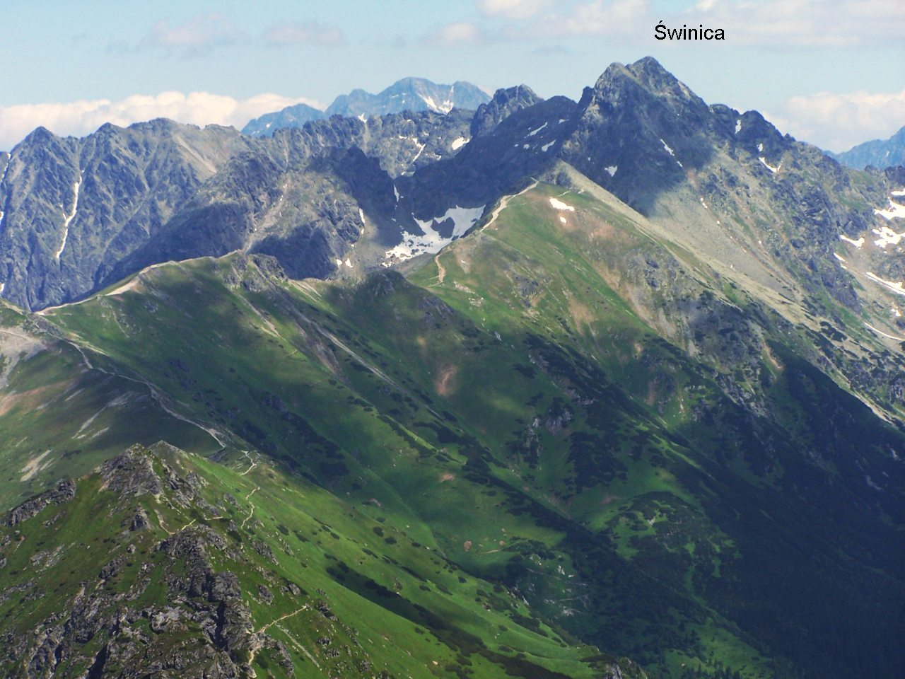 Tatry Wysokie (Tatra Mountains)